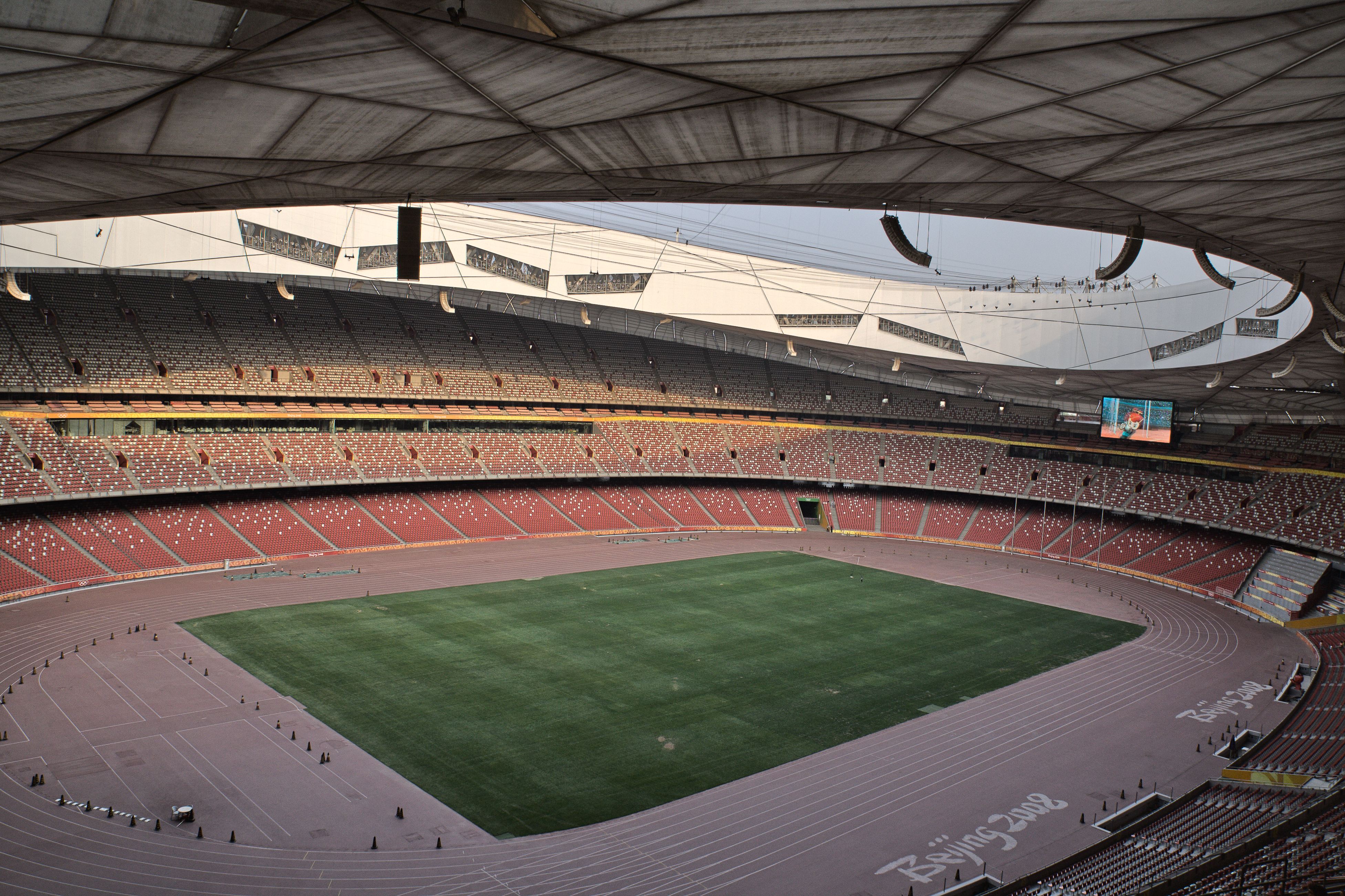 Interior of Beijing National Stadium (Bird's Nest)